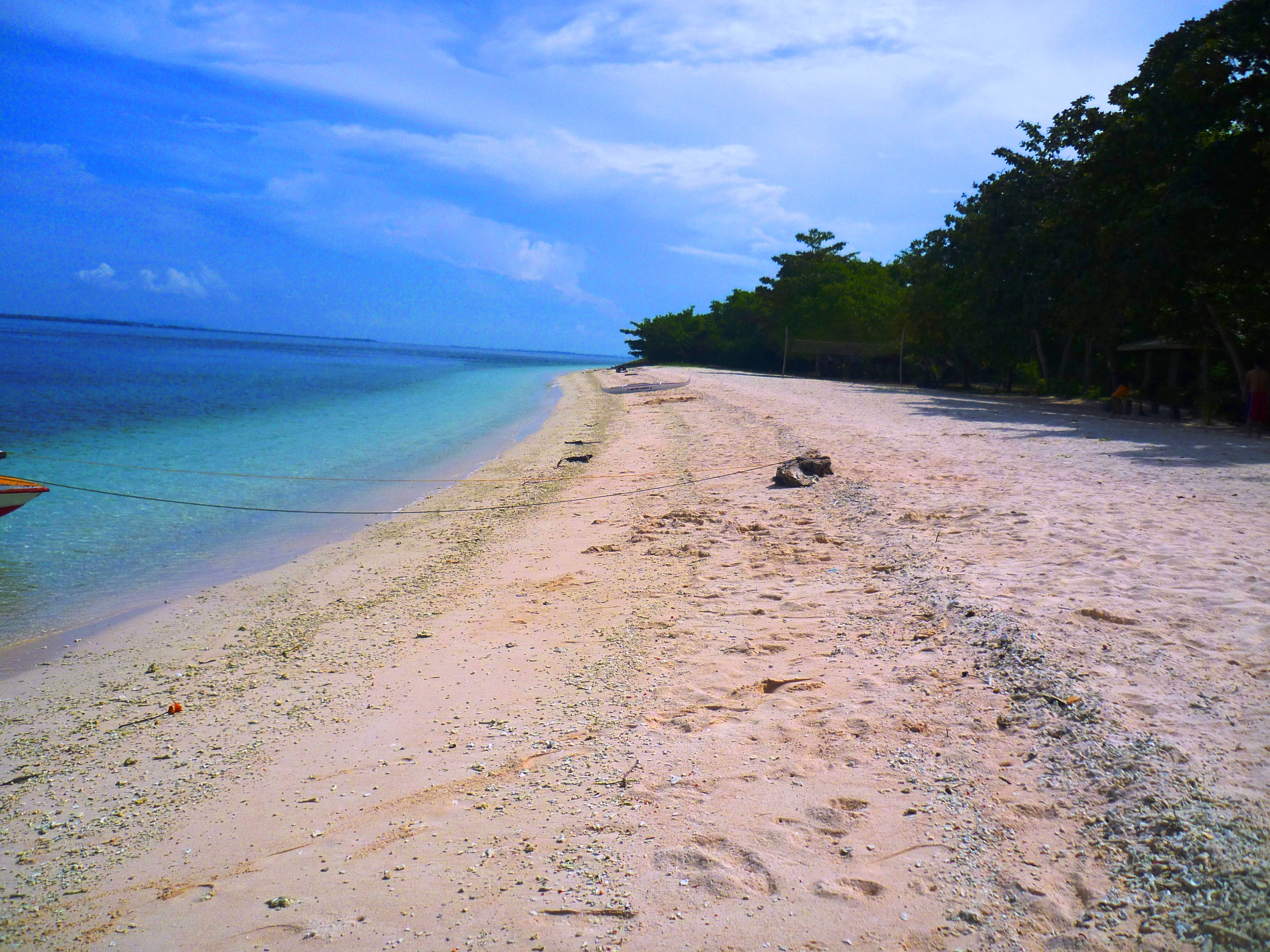 Isla Great Santa Cruz, Zamboanga city